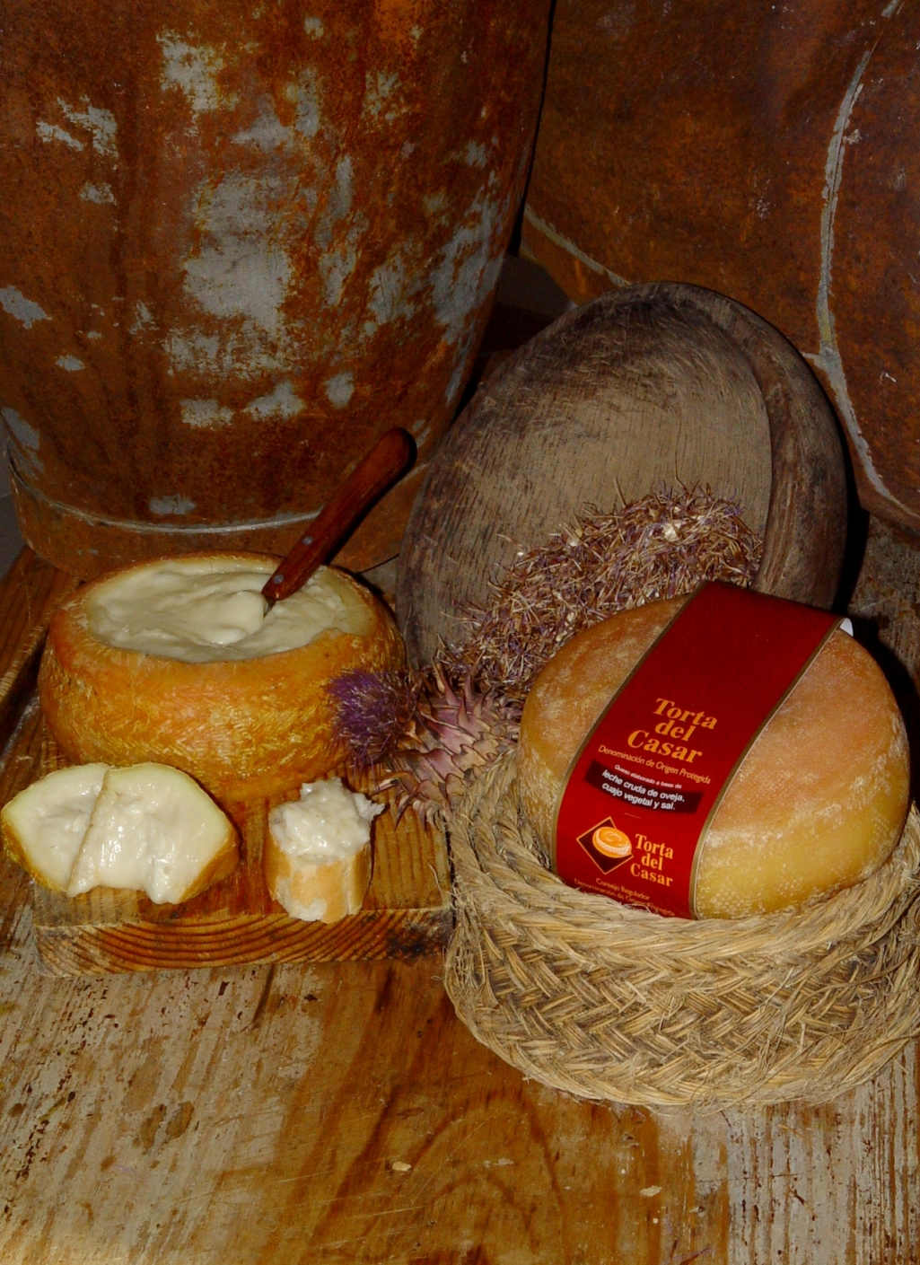 Photograph of PDO cheese Torta del Casar (Spain) with its certification label, opened in its two forms, top to spread, and traditional cut